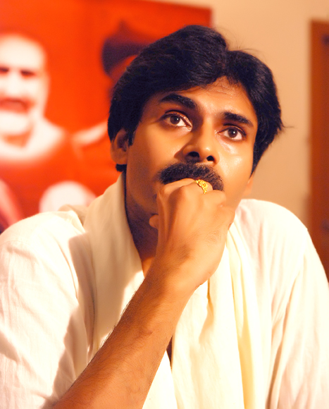 During cmpf launch.